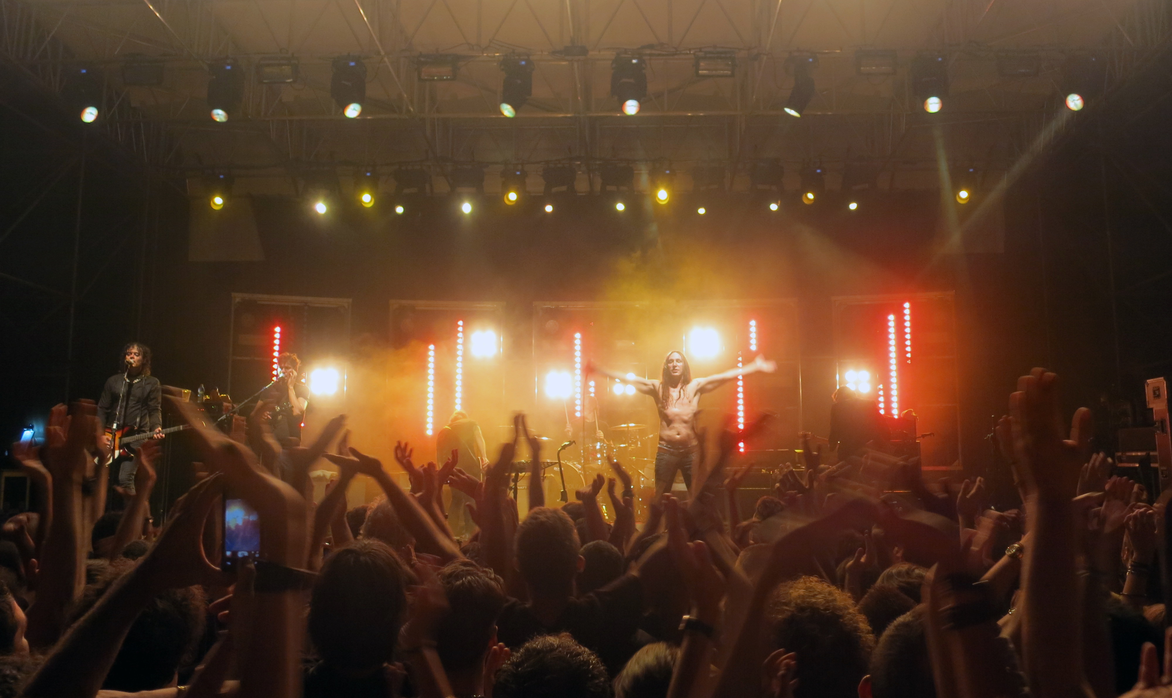 Afterhours - Hai paura del buio Tour 2014, at Metarock Festival - La Cittadella Park, Pisa, Italy